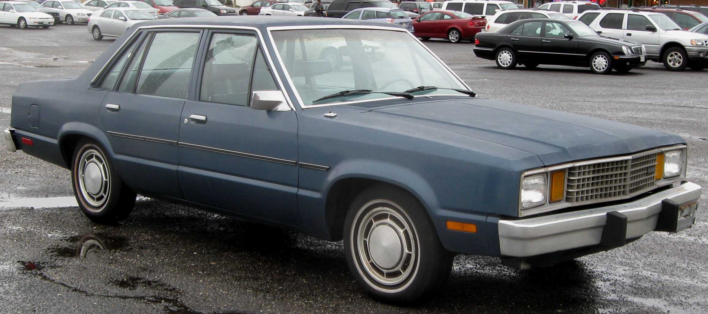 Ford Fairmont photographed in Oxon Hill, Maryland, USA.